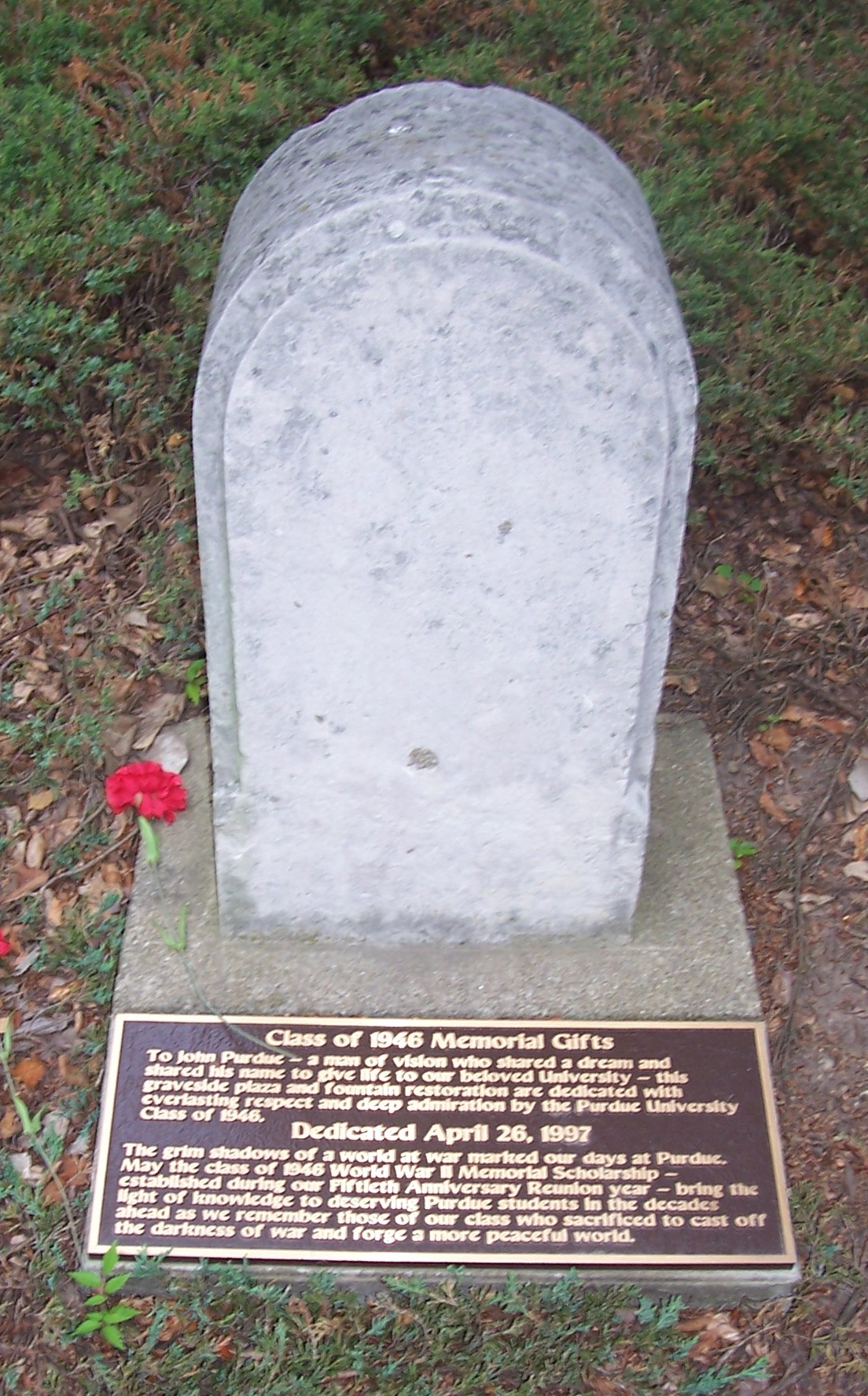 Grave of businessman John Purdue, founder of Purdue University in West Lafayette Indiana, USA. Taken by the uploader on 6/22/2006.